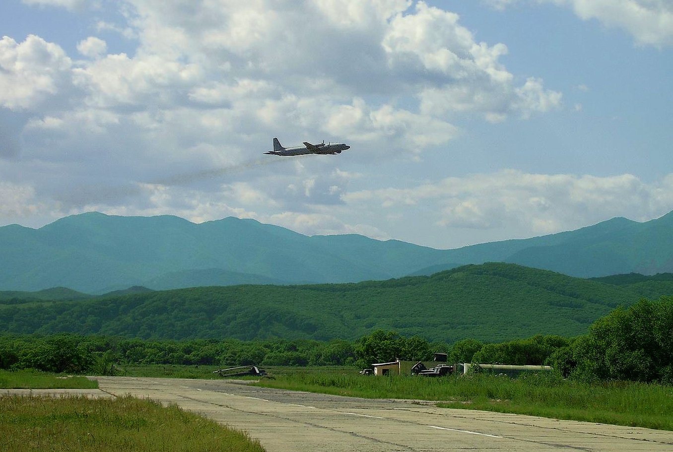 Plane over Partizansky District